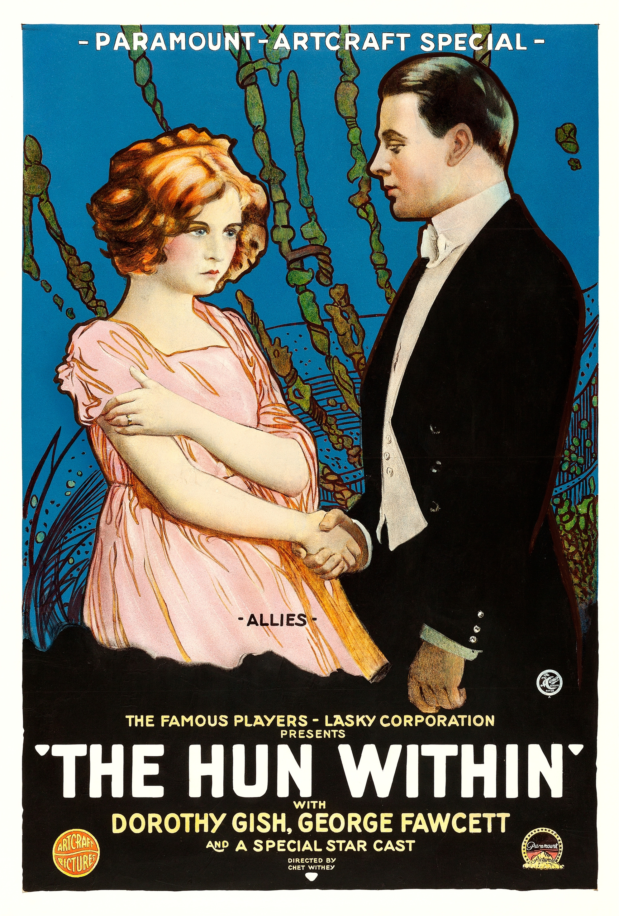 This is a poster for the 1918 American silent war drama thriller film The Hun Within.